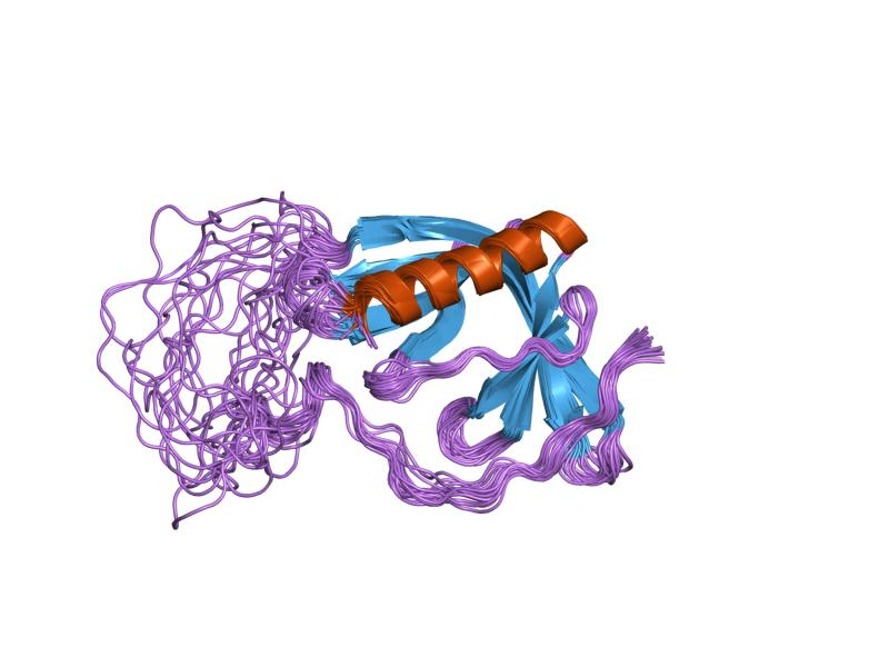 Cartoon representation of the molecular structure of protein registered with 1mke code.